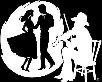 ballroom dance entertain gentle icon symbol